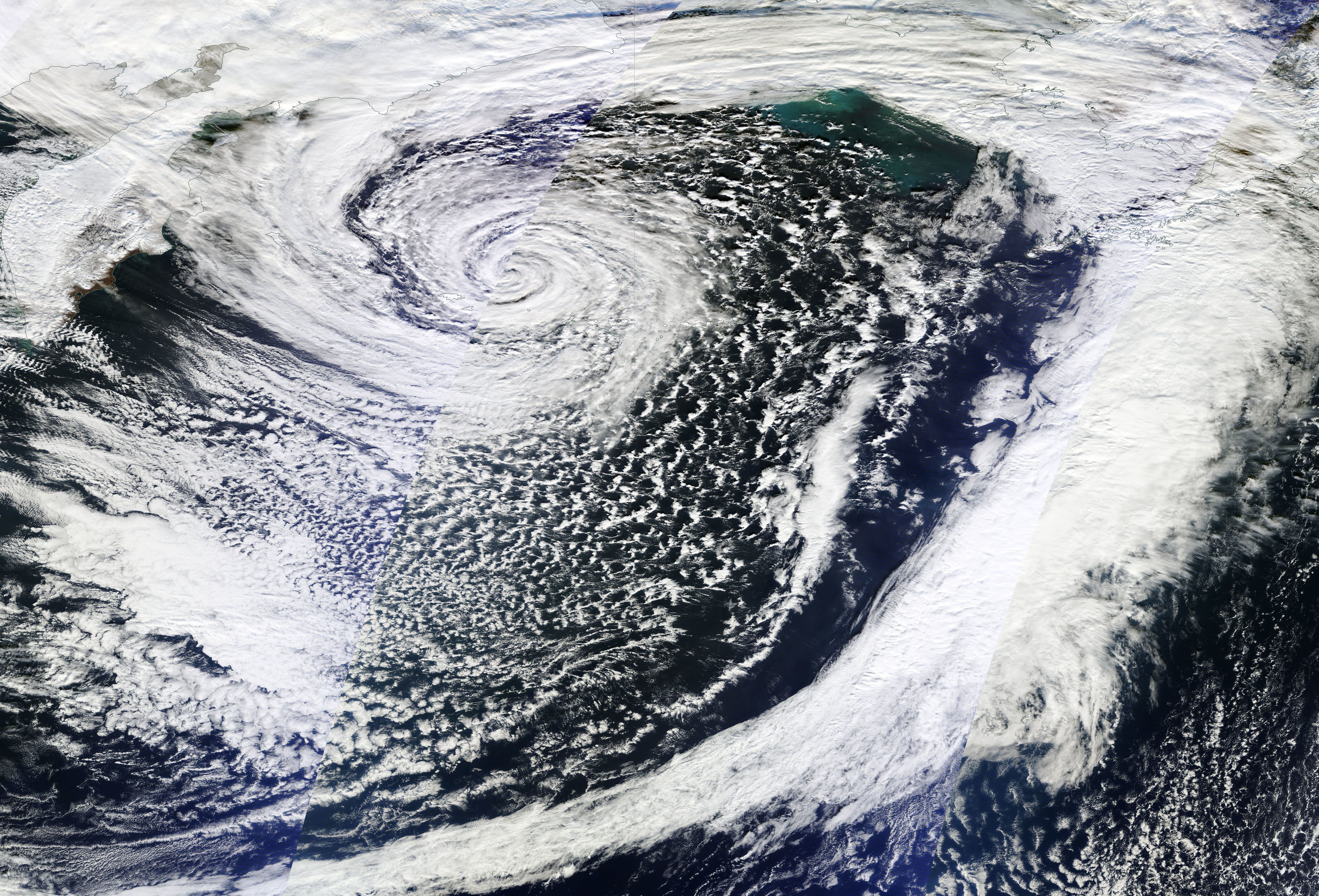 The November 2014 Bering Sea bomb cyclone at peak intensity over the Bering Sea, late on November 8, 2014.